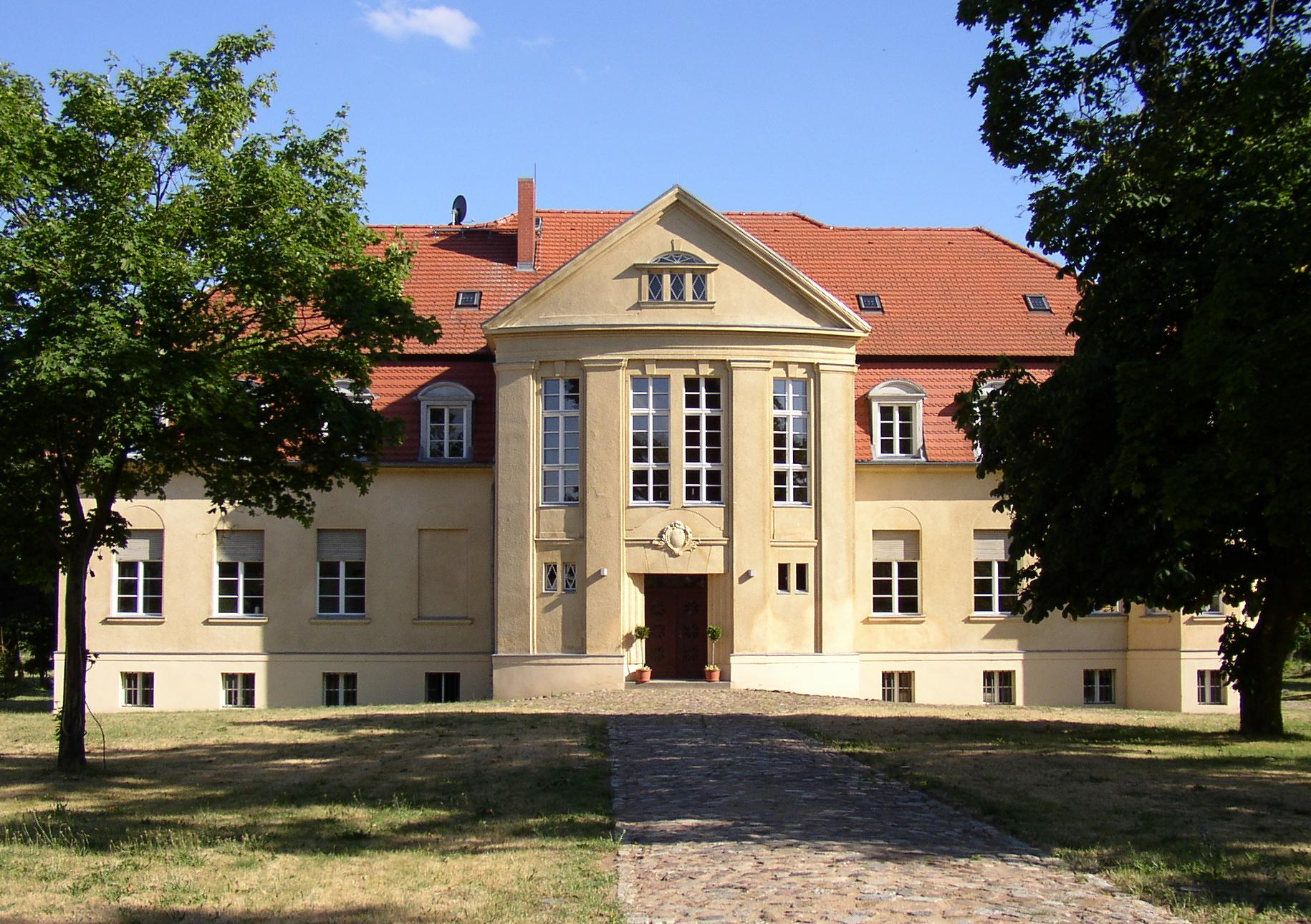 Manor house in Heiligengrabe-Grabow in Brandenburg, Germany